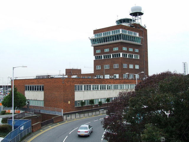 Heathrow control tower On Control Tower Road.